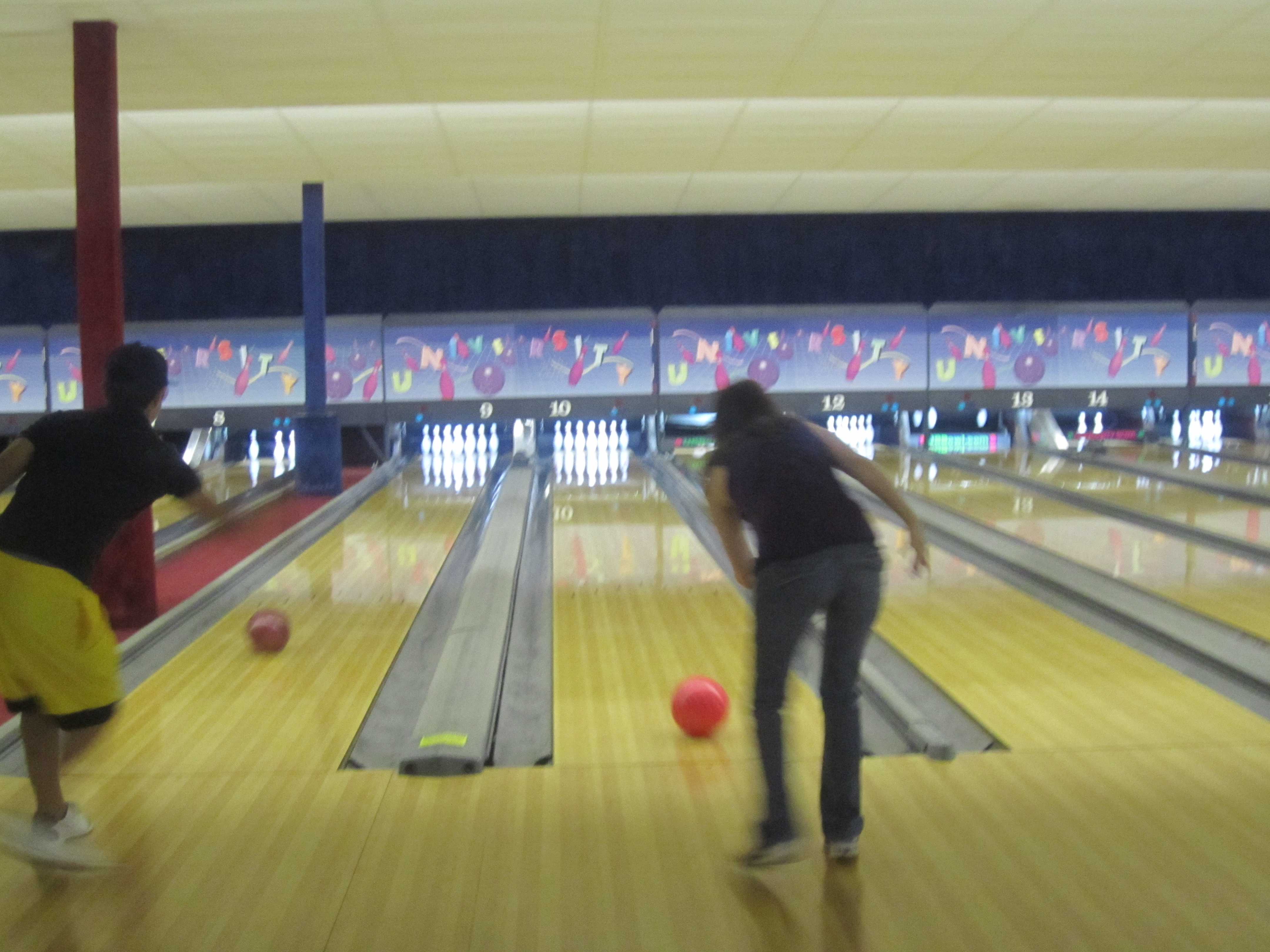 I took photo of bowlers in San Antonio, TX, with Canon camera.